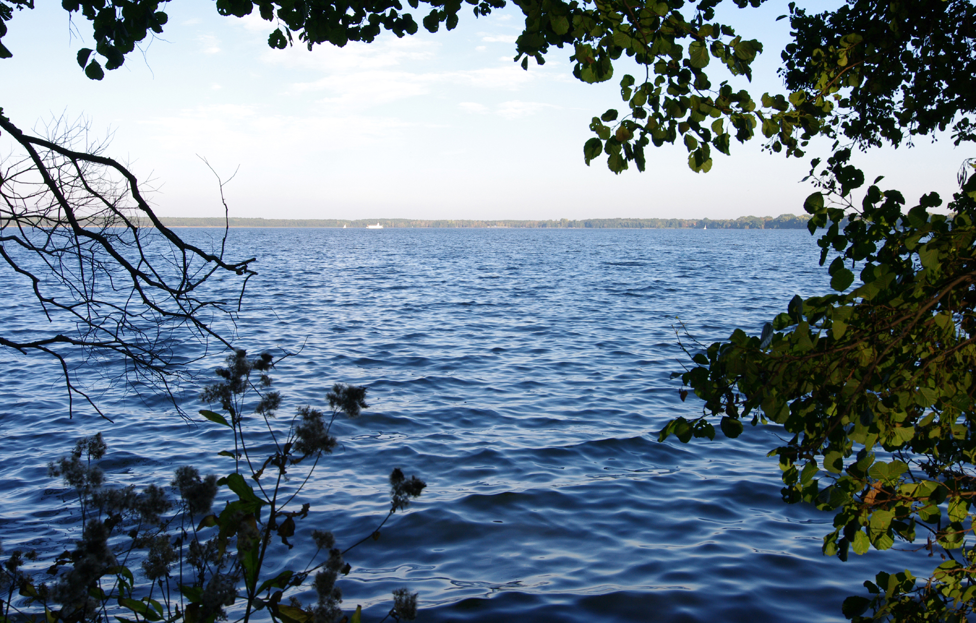 Lake Arendsee in northern Germany – a large water-filled sinkhole. View from the western bank.